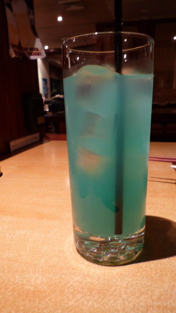 China Blue cocktail